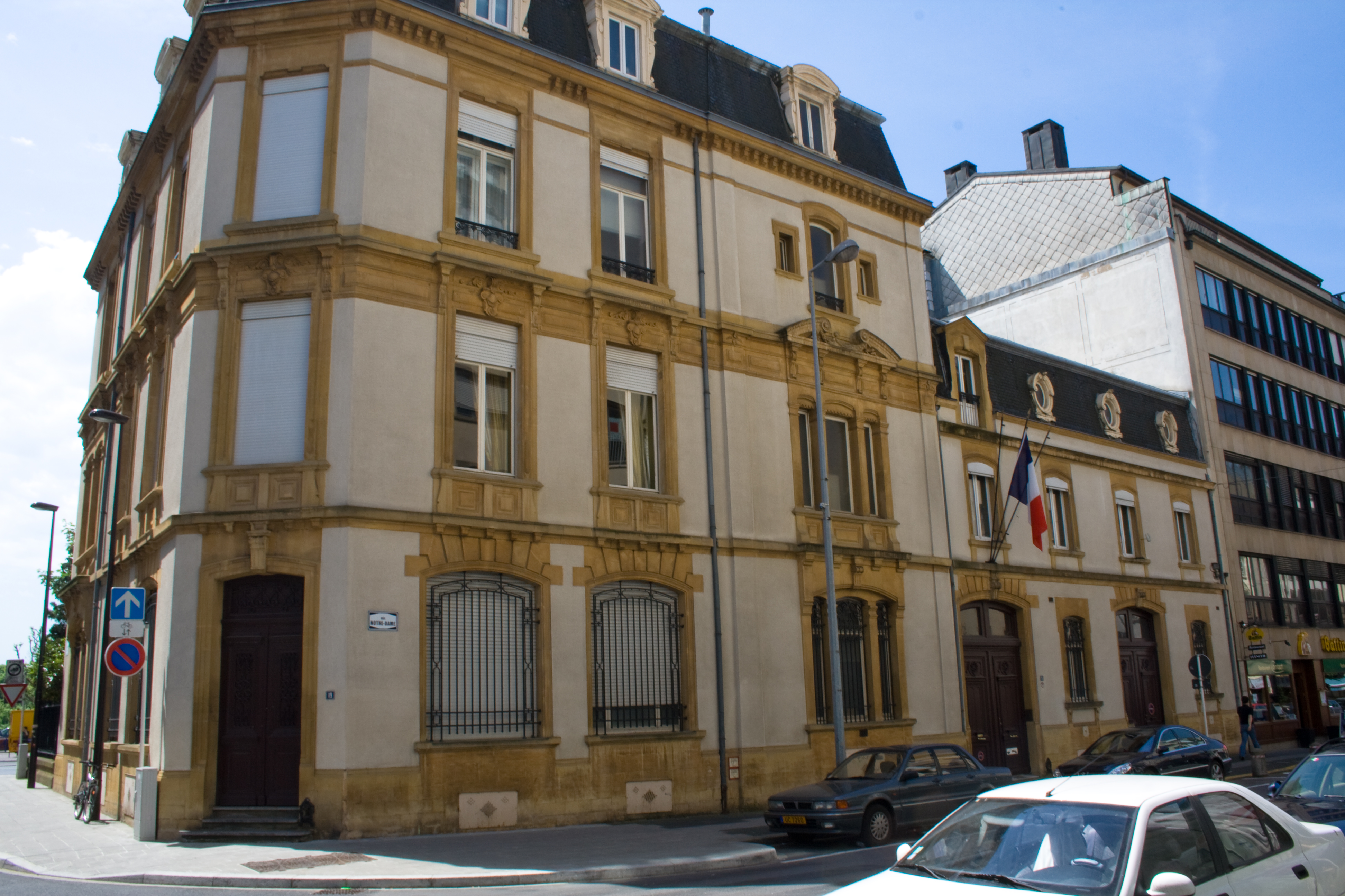 French embassy in Luxembourg City